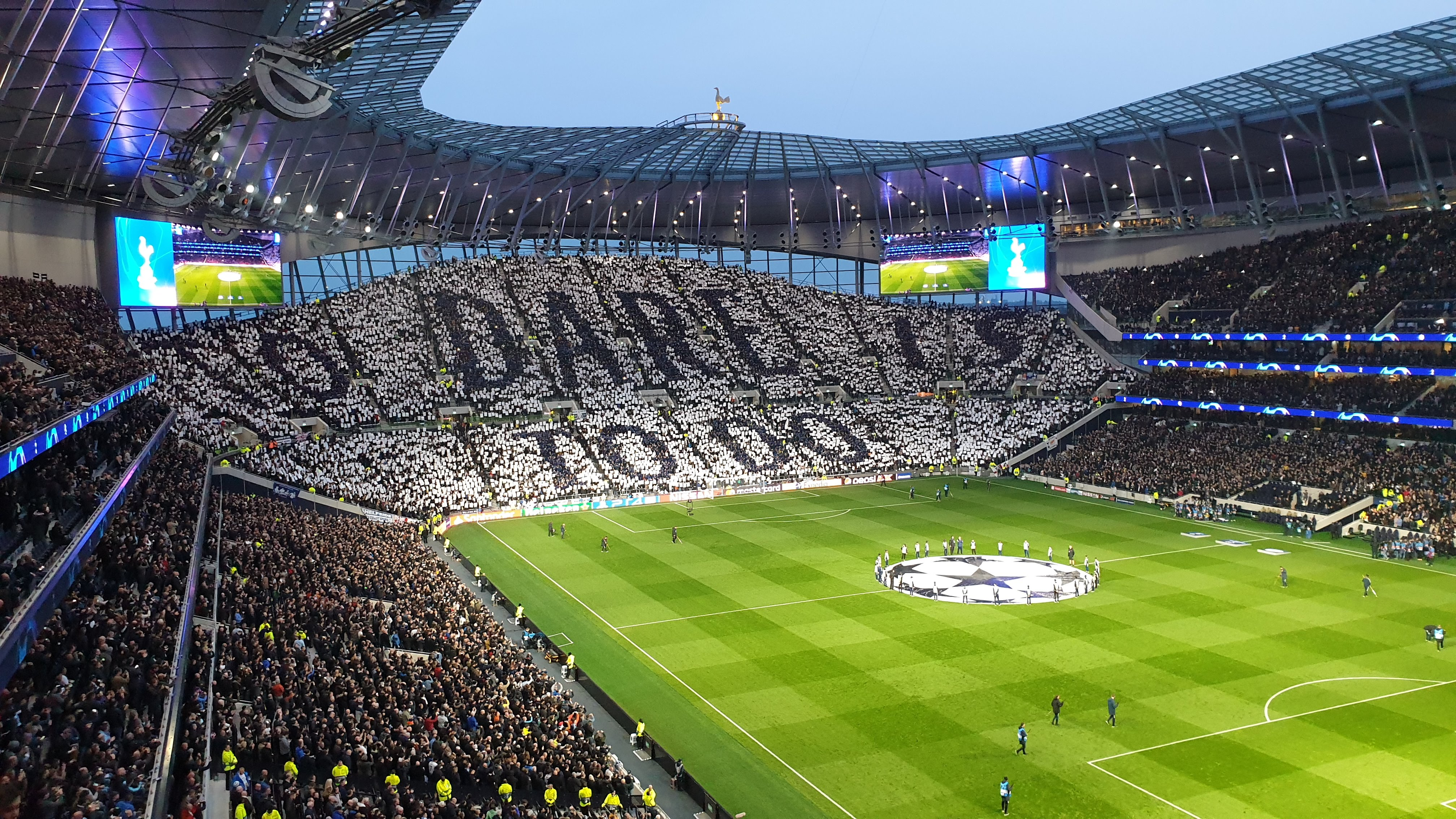 A photograph of the South or Park Lane Stand at the Tottenham Hotspur Stadium, taken before the UEFA Champions League quarter-final with Manchester City on April 9th 2019.